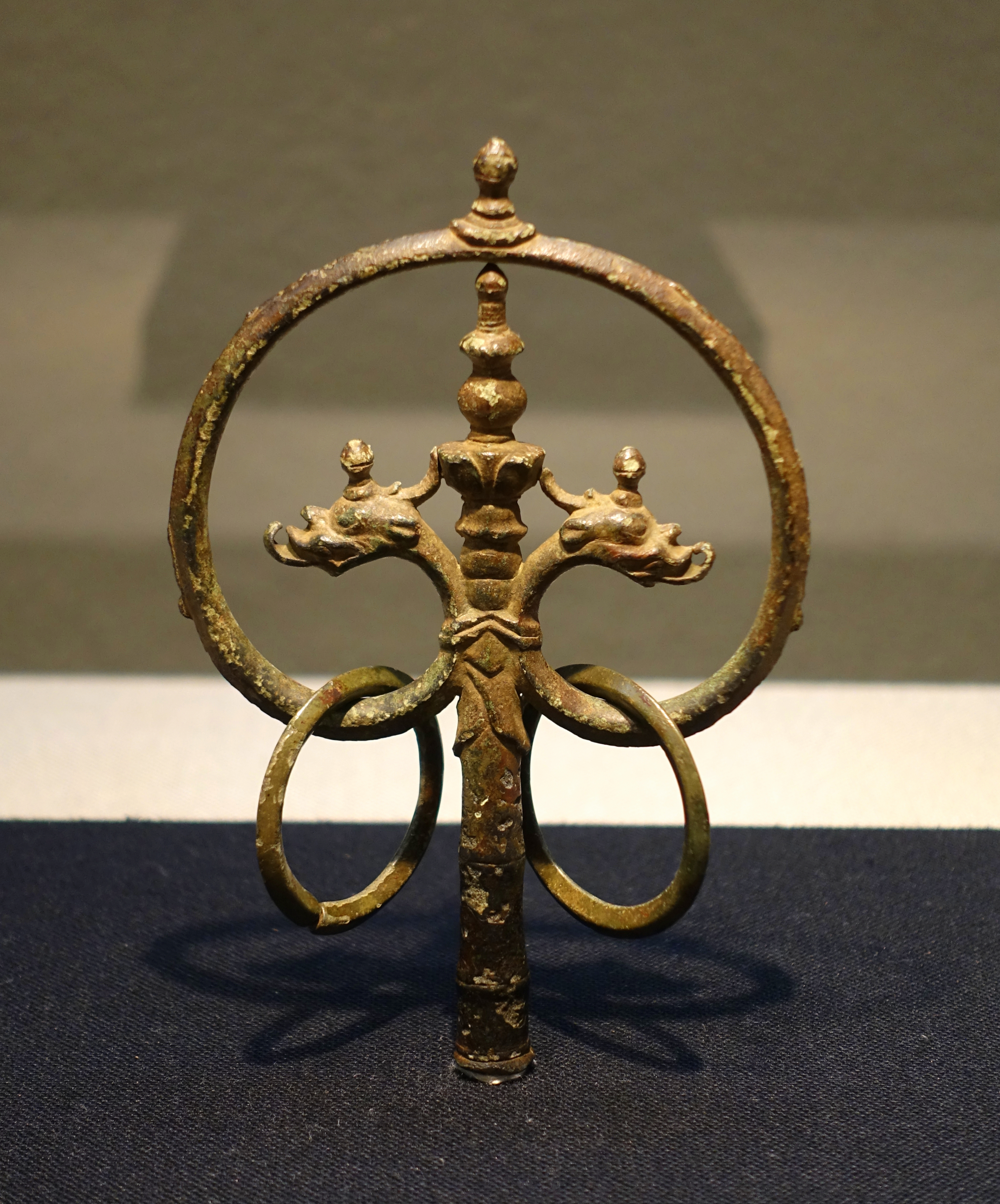 Exhibit in the Tokyo National Museum, Tokyo, Japan. This artwork is old enough so that it is in the public domain.